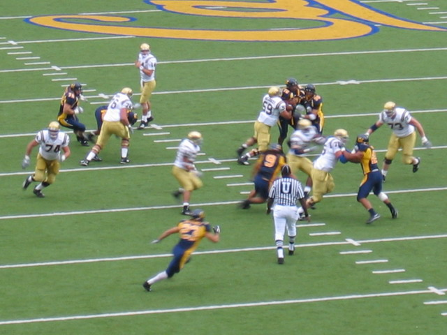 UCLA vs. Cal Oct. 16, 2004College Football